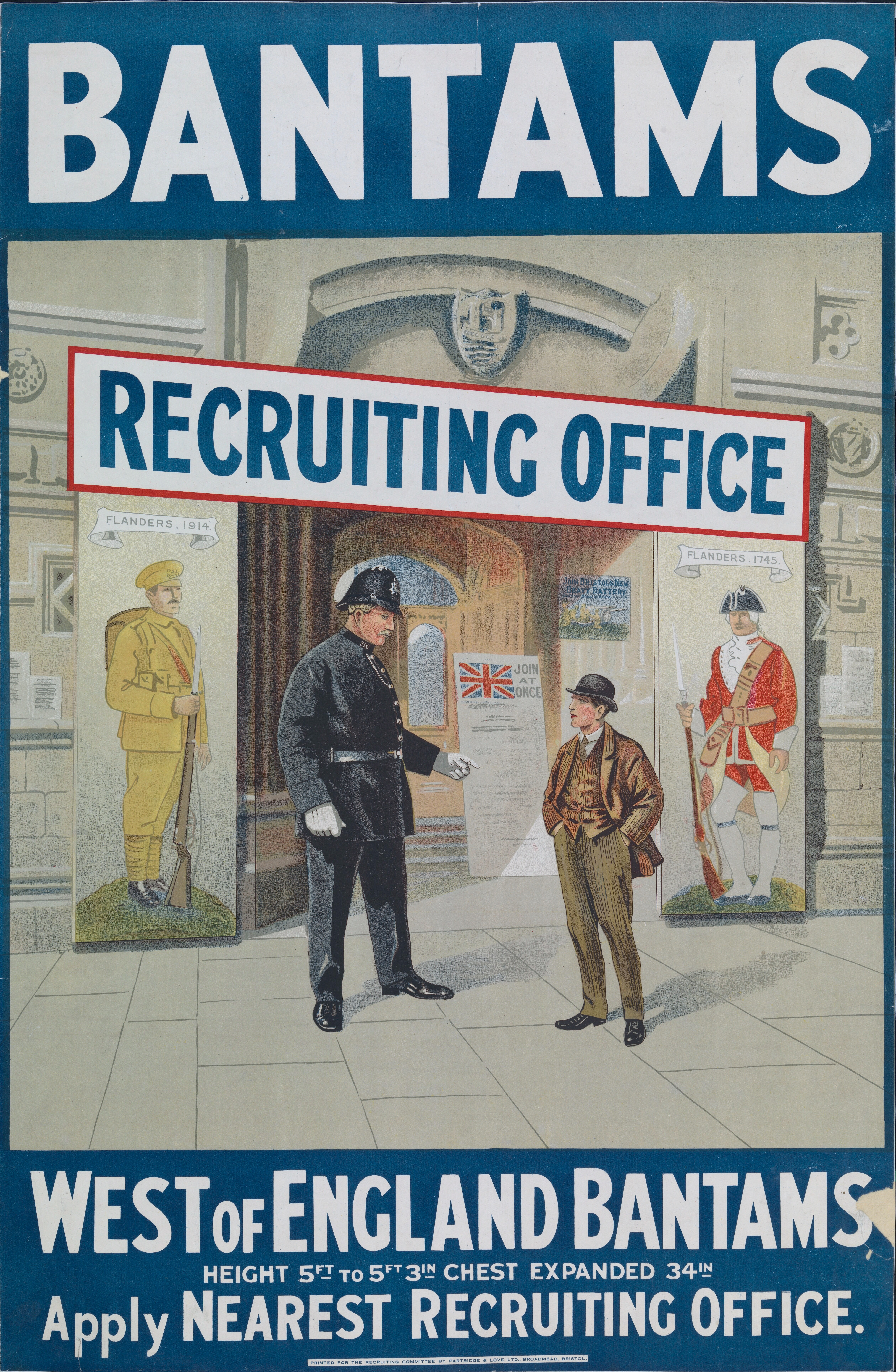 British Army recruiting poster for Bantams : short men.